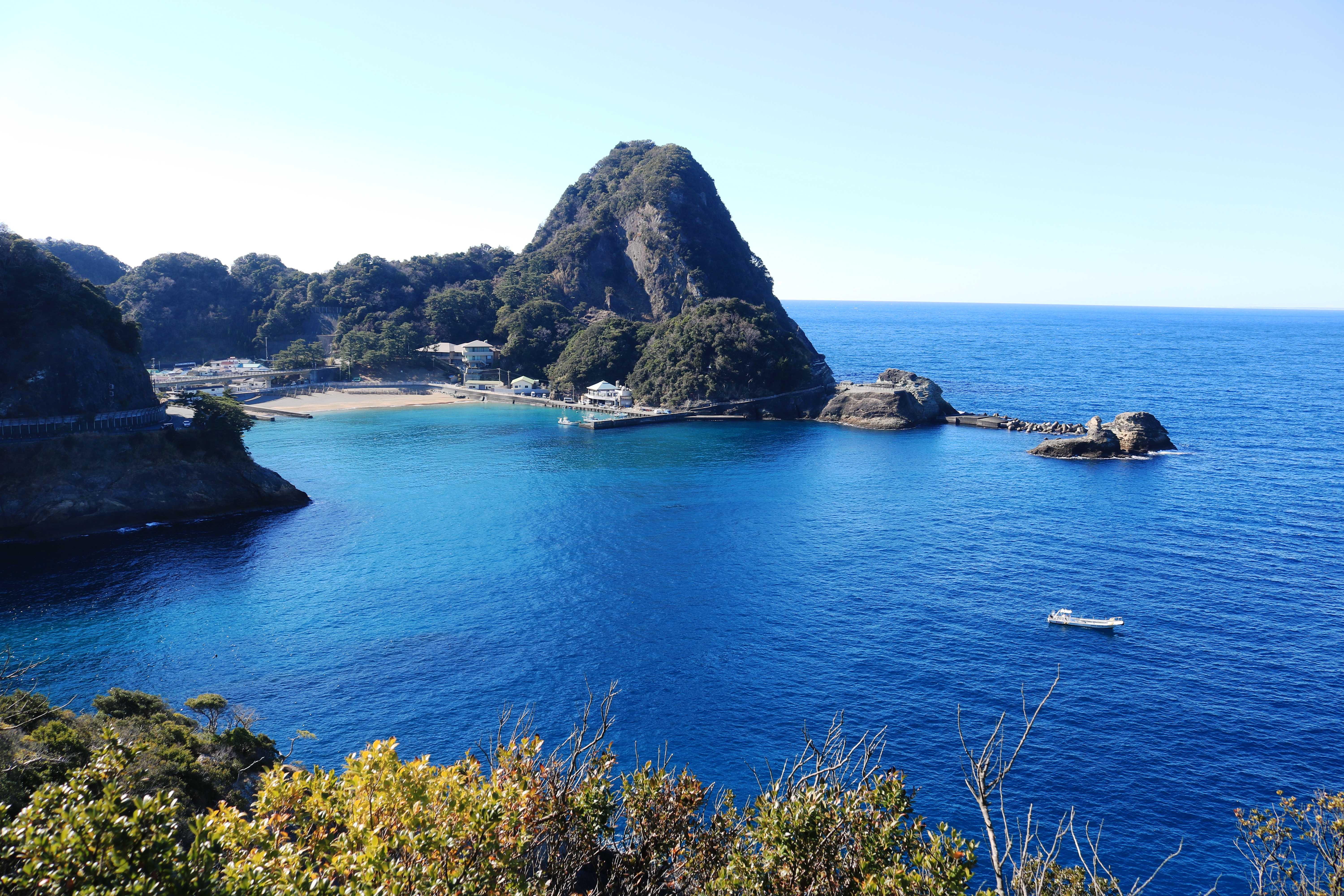 Mount Eboshi (Eboshi-yama) , a mountain (162m, volcanic plug) located in Kumomi, Matsuzaki, Shizuoka Prefecture, Japan.